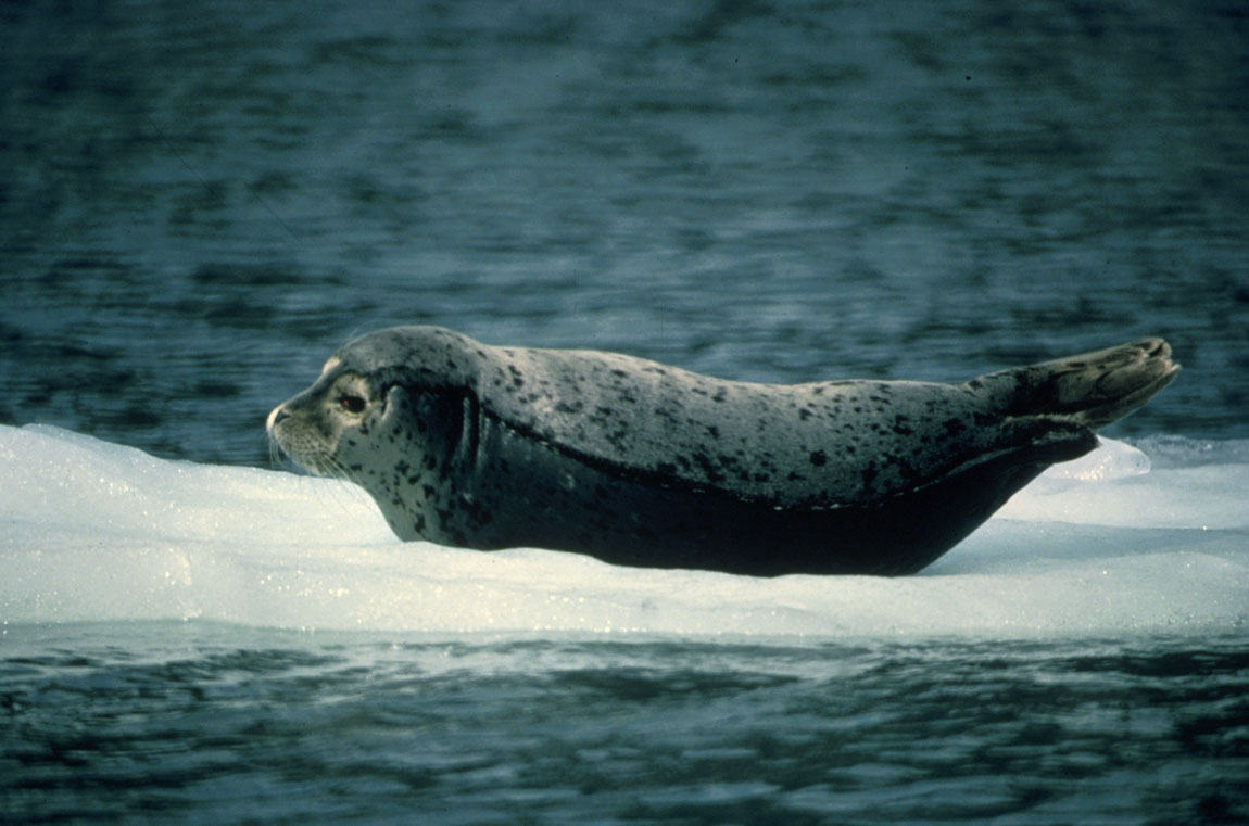 Common Seal or Harbour Seal Phoca vitulina, Yukon Delta NWR